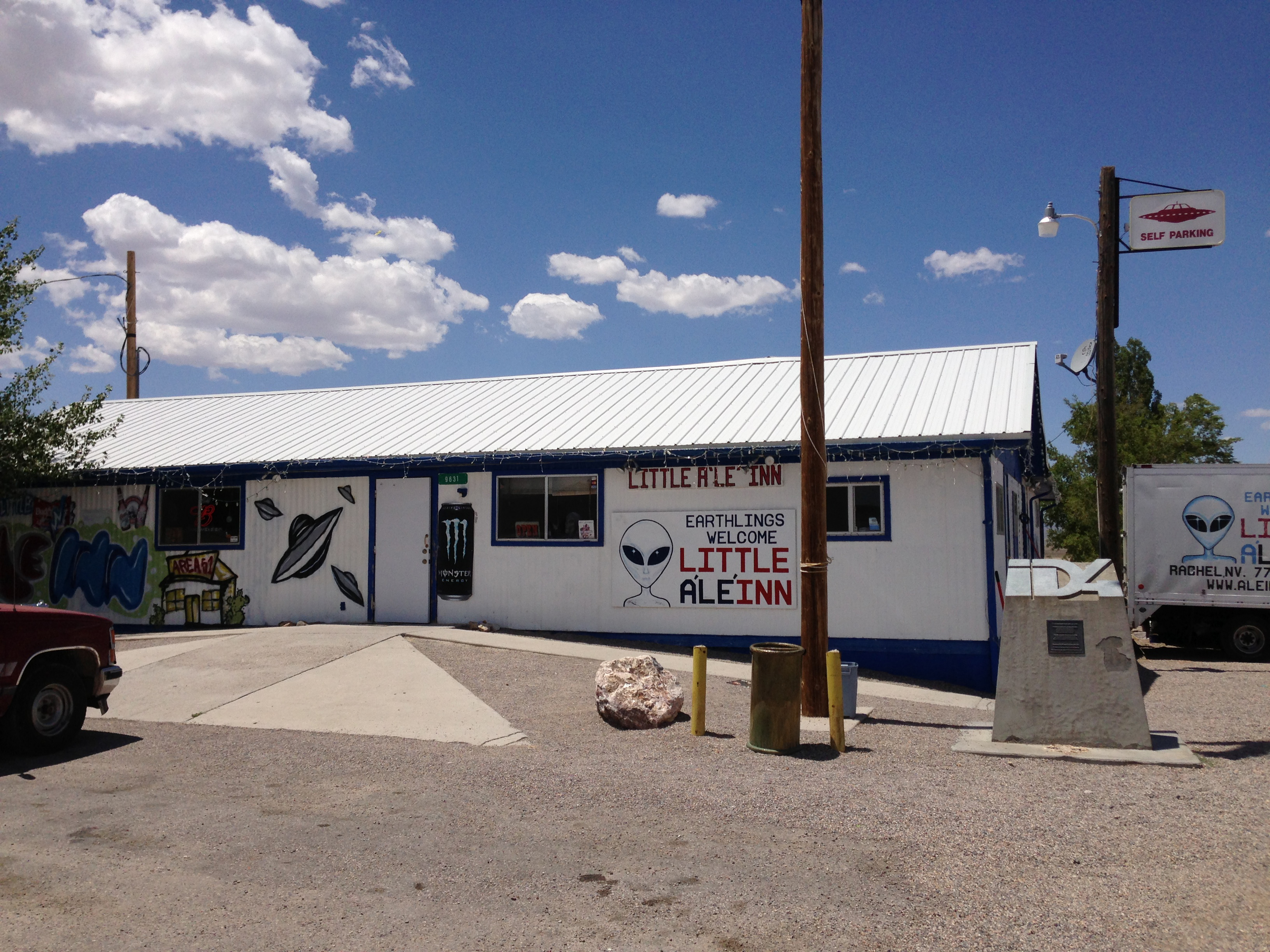 Little A'Le'Inn restaurant, bar and motel along Nevada State Route 375 in Rachel, Nevada